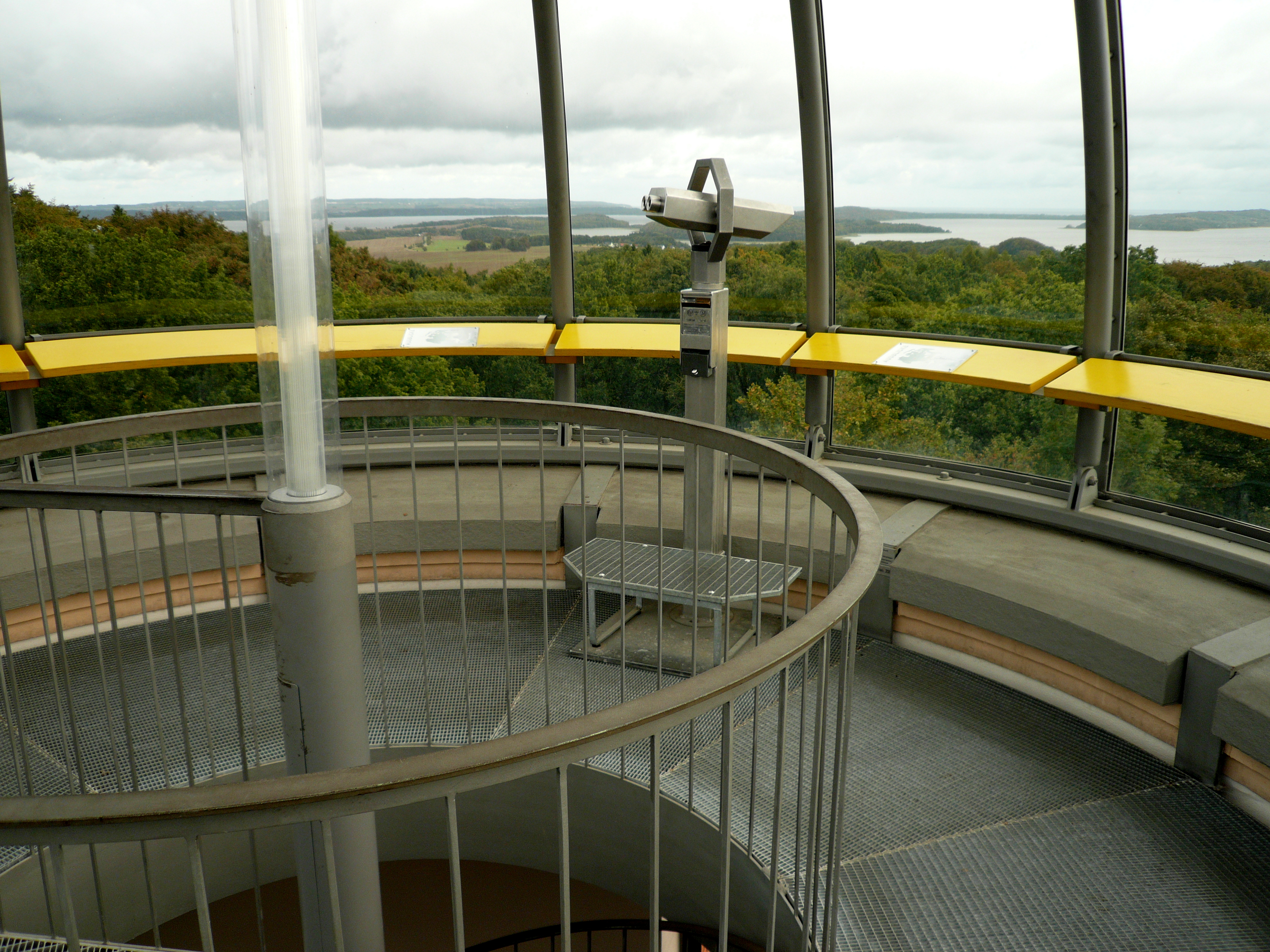 In the Ernst-Moritz-Arndt tower at Bergen, Ruegen